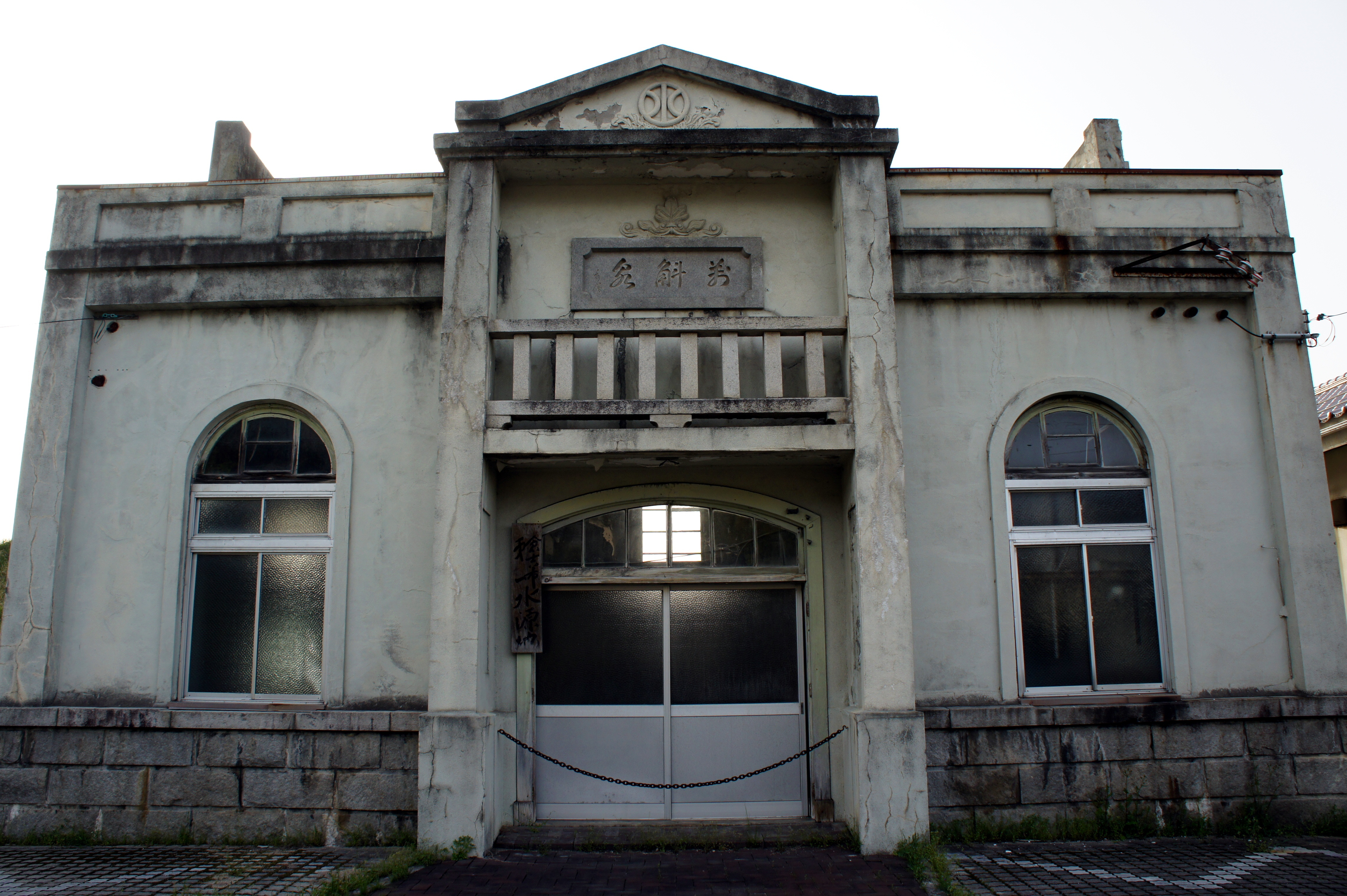 Pump Cabin of the reservoir for the former Kurayoshi town (Kurayoshi, Tottori Prefecture, Japan)